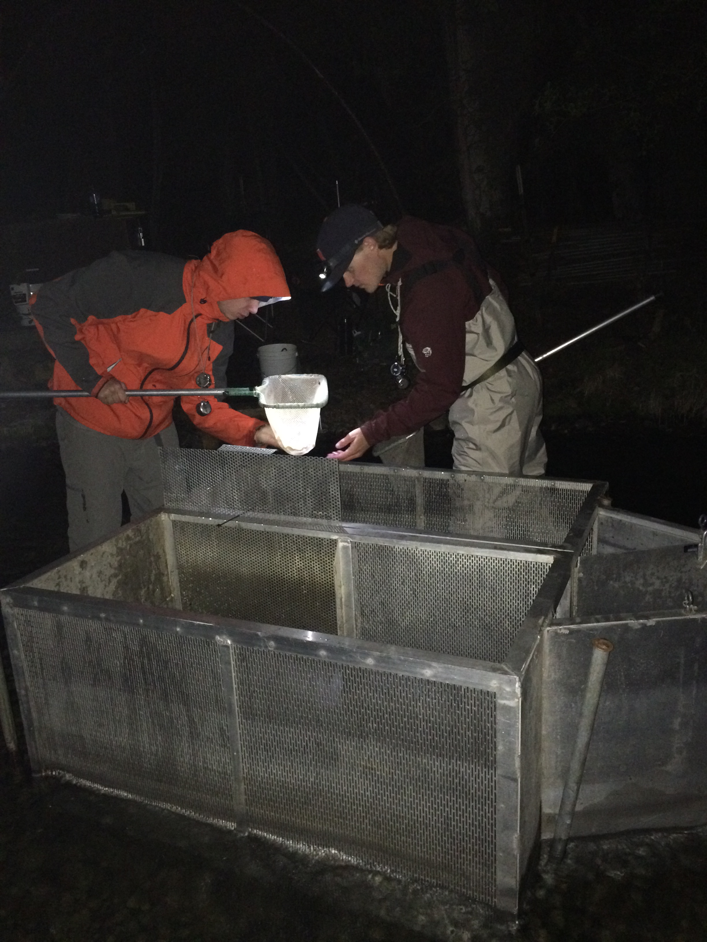 CIAA staff counting sockeye smolt as they migrate out of Hidden Lake